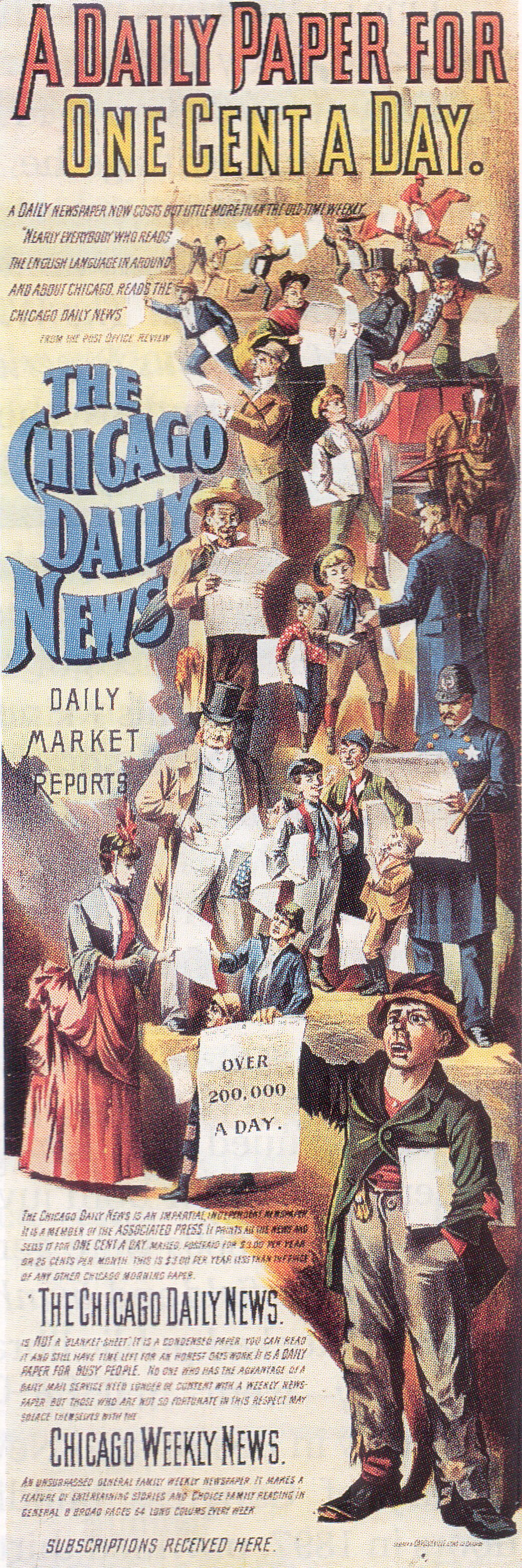 poster advertising Chicago Daily News newspaper subscriptions, 1901 Other information none